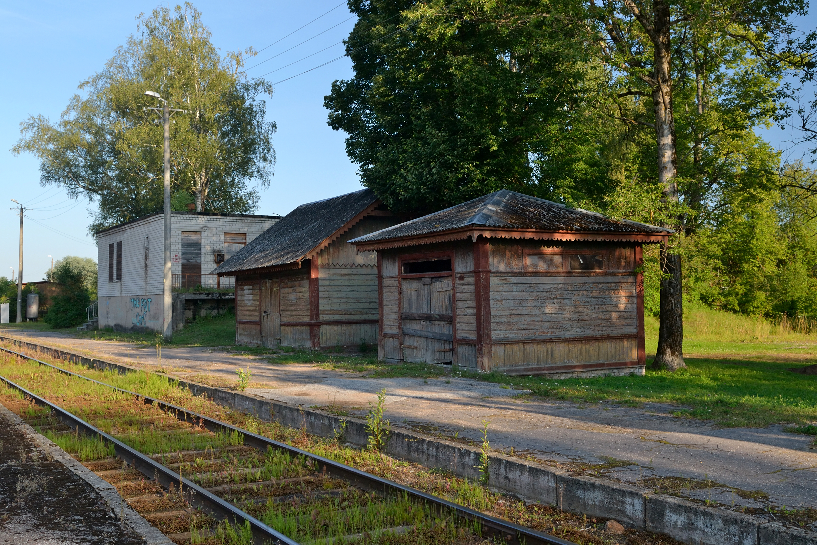 Võru railway station ancillary buildings